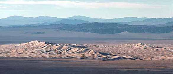 Kelso Dunes at Mojave National Preserve.